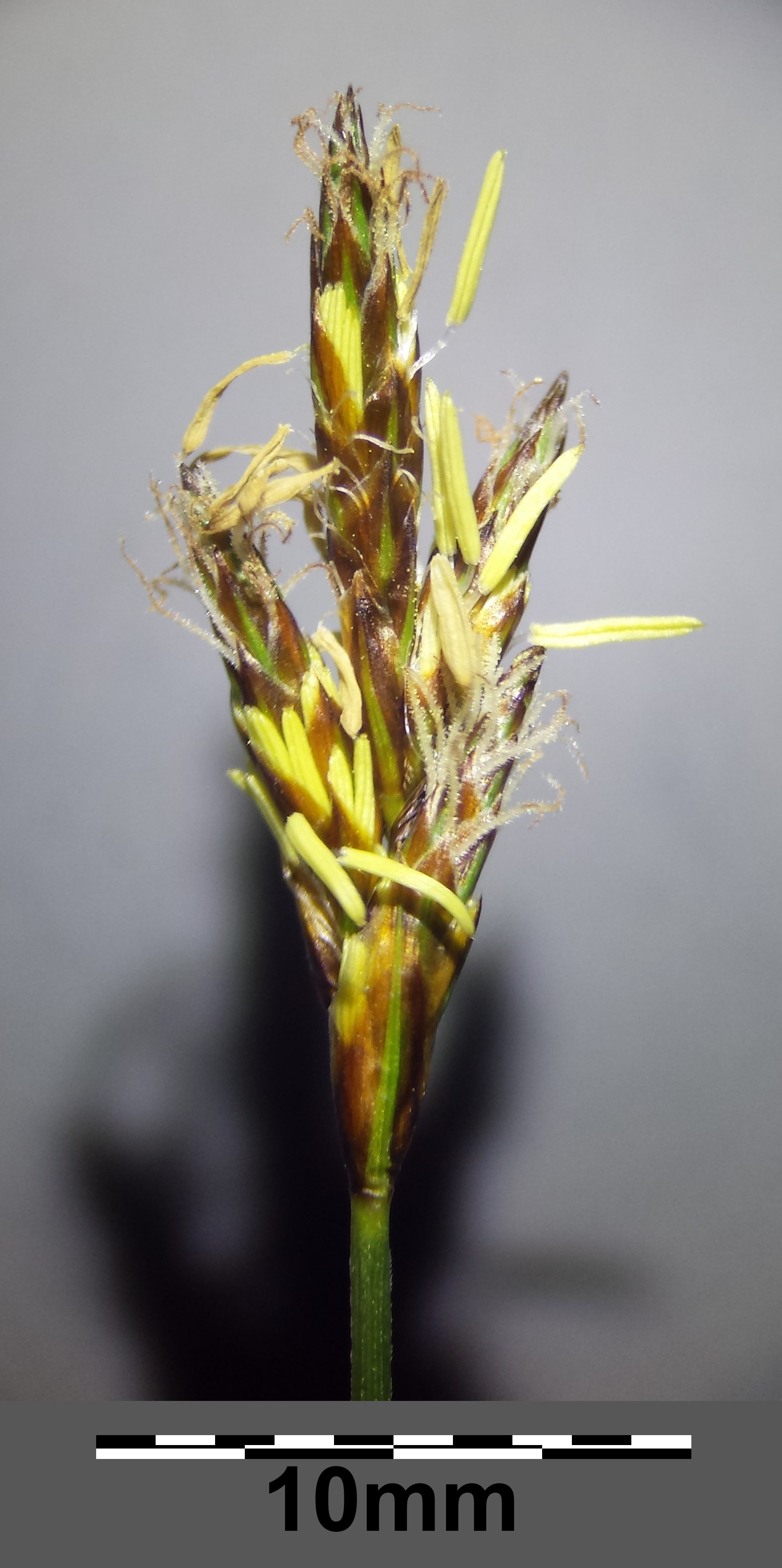 Inflorescence with spikes Taxonym: Carex praecox ss Fischer et al. EfÖLS 2008 ISBN 978-3-85474-187-9 Location: Altenbergen to the North of Ladendorf, district Mistelbach, Lower Austria - ca. 290 m a.s.l. Habitat: slope